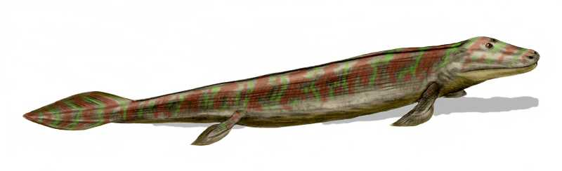 Tiktaalik rosae, pencil drawing, digital coloring